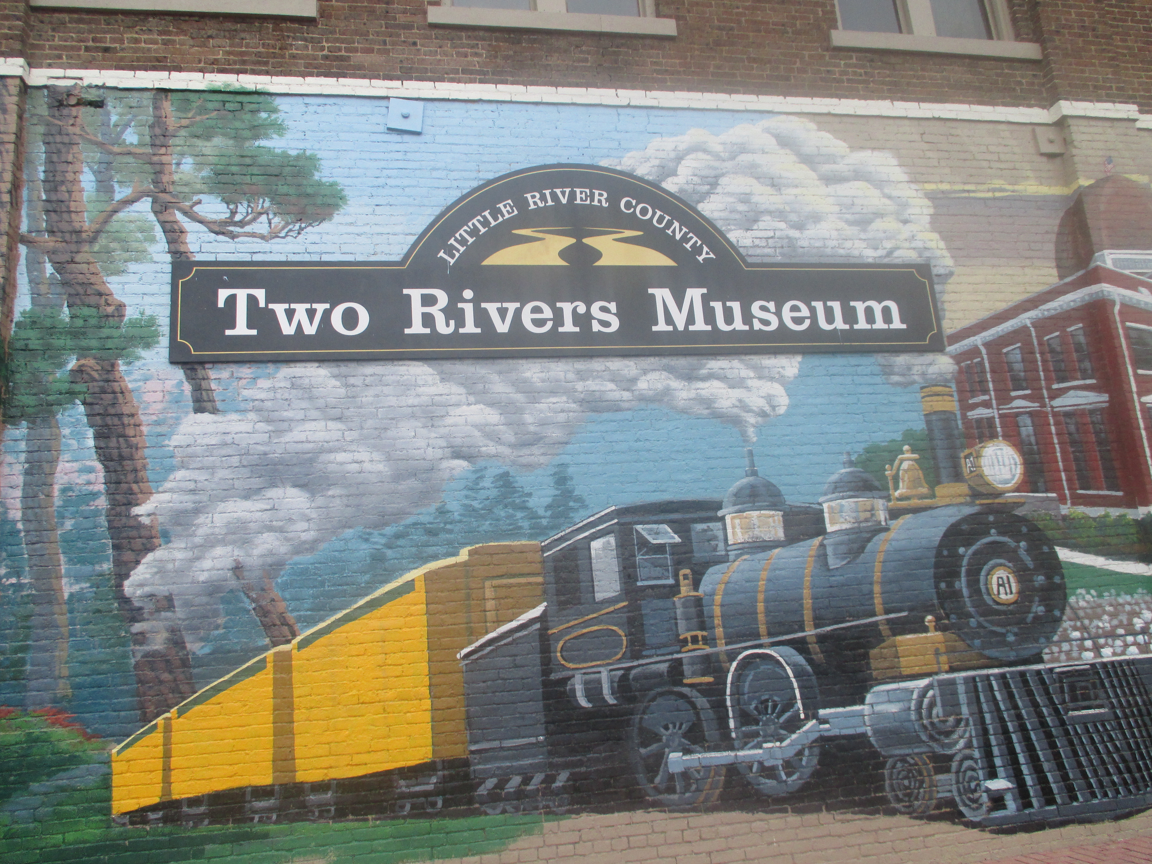 I took photo with Canon camera of Two Rivers Museum in Ashdown, AR. Entrance is to the left of the mural.